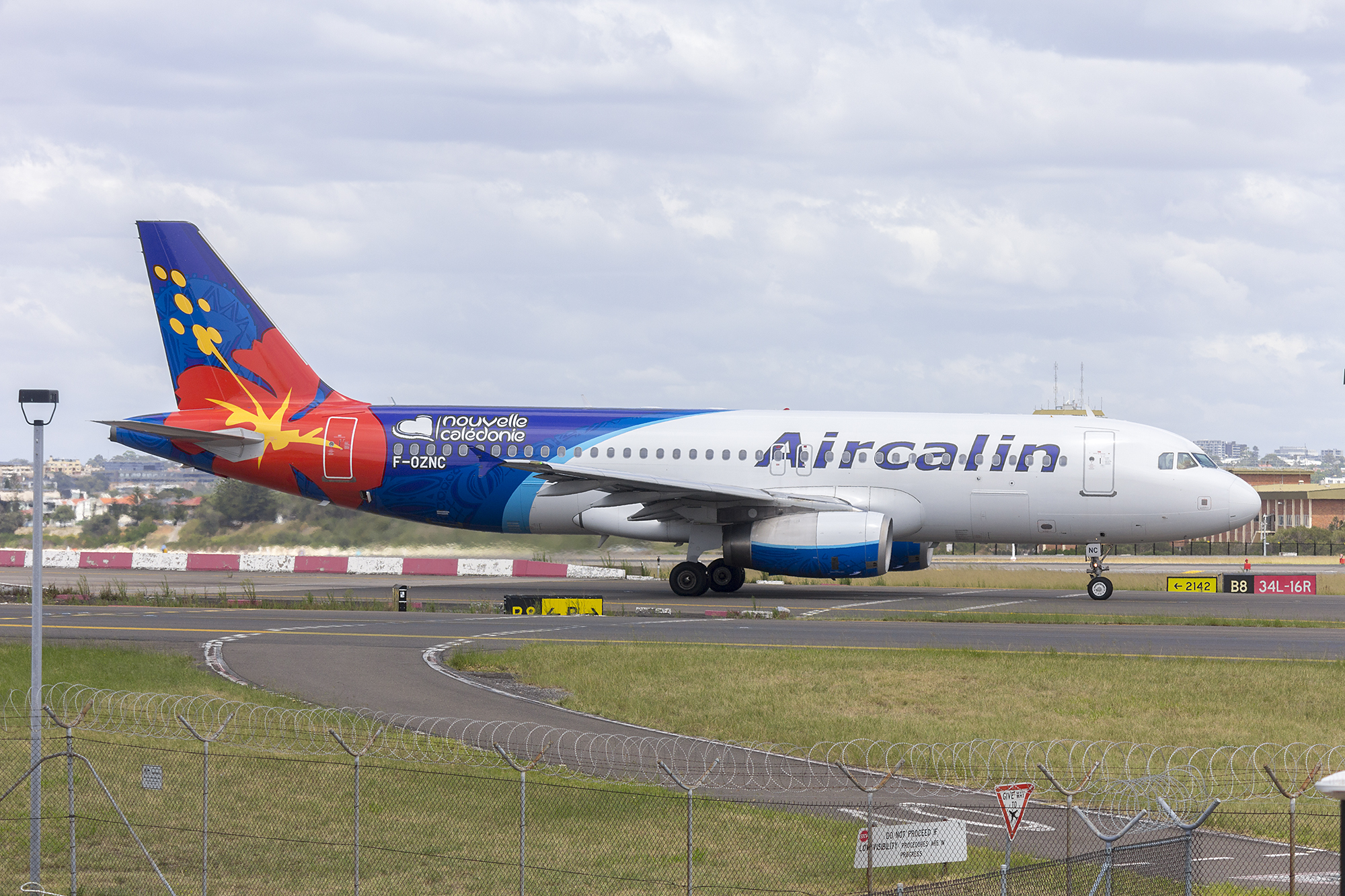 Aircalin (F-OZNC) Airbus A320-232 arriving at Sydney Airport.